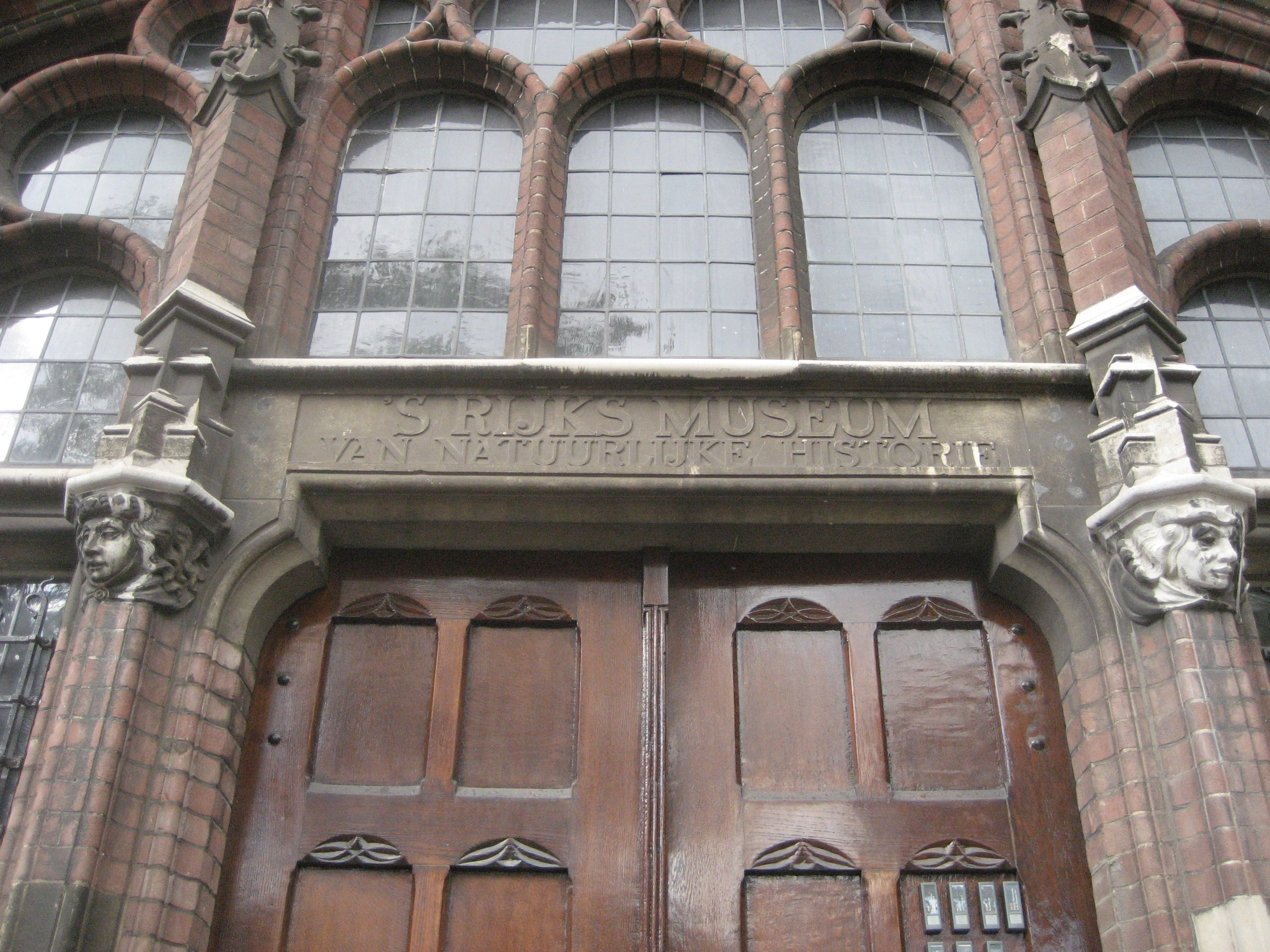 Entrance of the former Museum of Natural History, Raamsteeg in Leiden (the Netherlands)